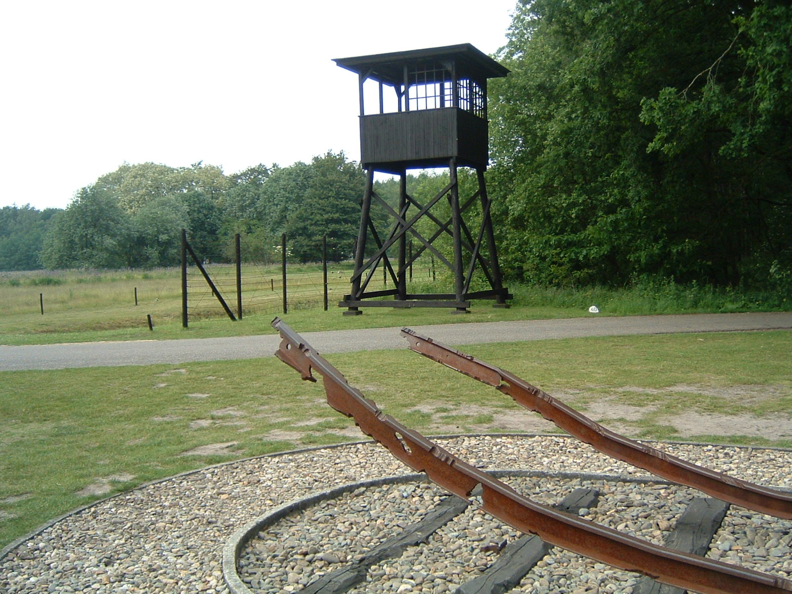 A monument at former Nazi transition-camp Westerbork in the Netherlands. When the rails were still intact trains used to transport people to and from the camp on it.